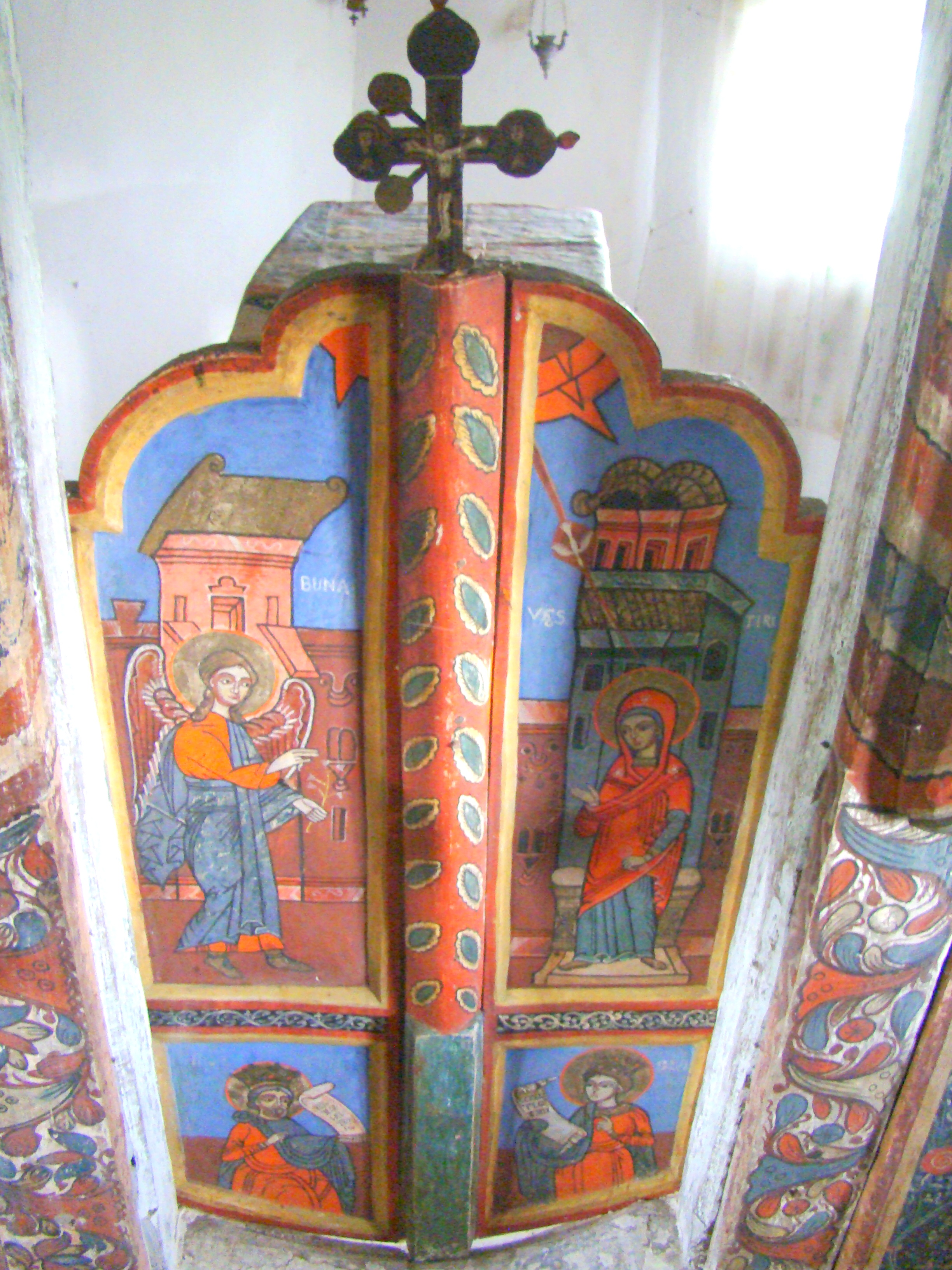 Wooden church of the Holy Angels in Novaci-Români, Gorj county, Romania